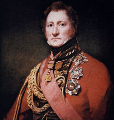 Portrait of General Sir Charles Colville